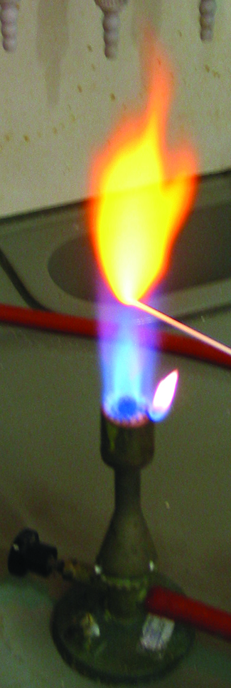 Image or illustration from the book: Chemistry Caption:Missing, please see book Book summary:Chemistry is designed for the two-semester general chemistry course. For many students, this course provides the foundation to a career in chemistry, while for others, this may be their only college-level science course. As such, this textbook provides an important opportunity for students to learn the core concepts of chemistry and understand how those concepts apply to their lives and the world around them. The text has been developed to meet the scope and sequence of most general chemistry courses. At the same time, the book includes a number of innovative features designed to enhance student learning. A strength of Chemistry is that instructors can customize the book, adapting it to the approach that works best in their classroom.